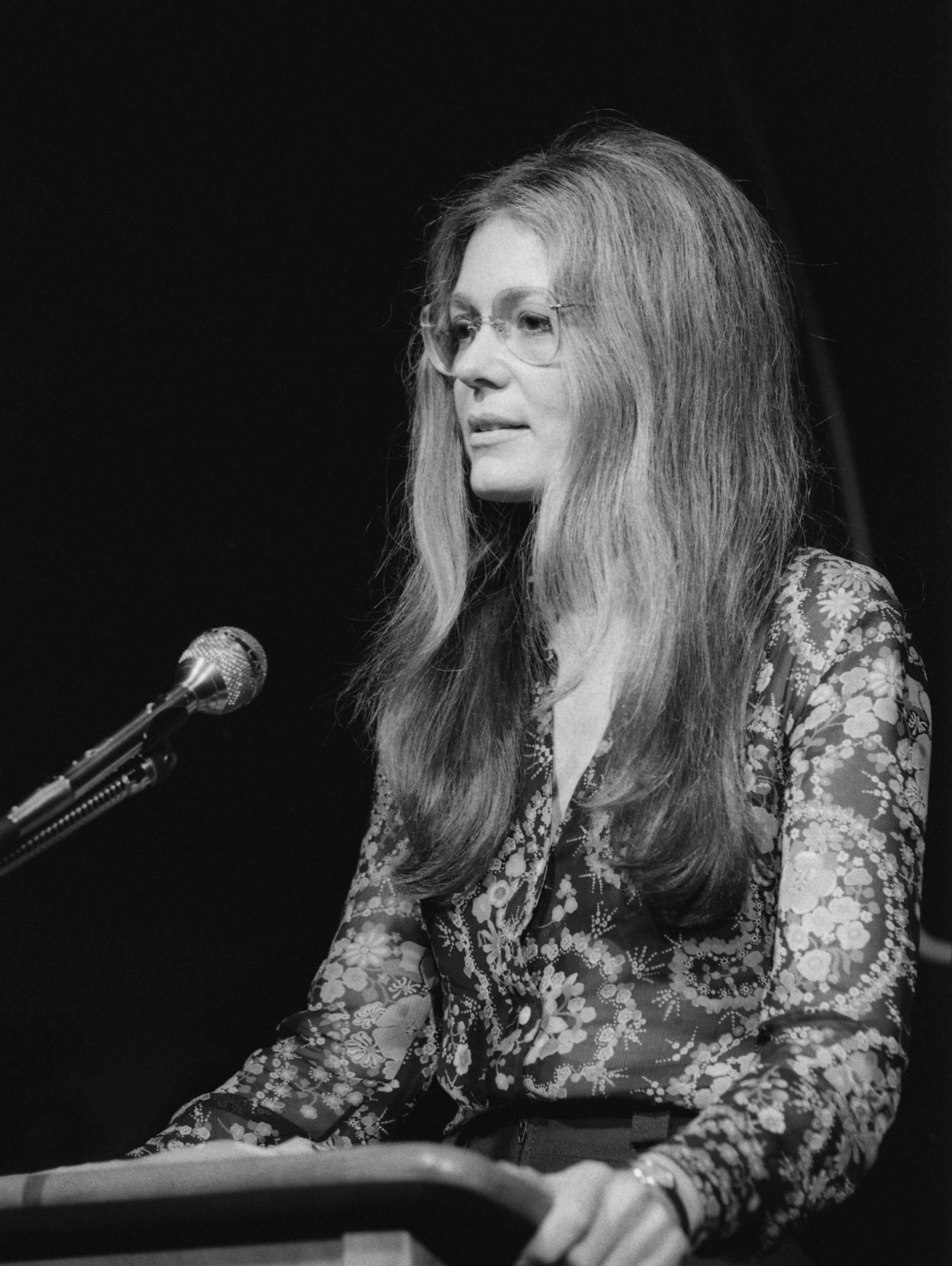 Gloria Steinem at a women's conference held at the LBJ Library on Nov. 9, 1975.